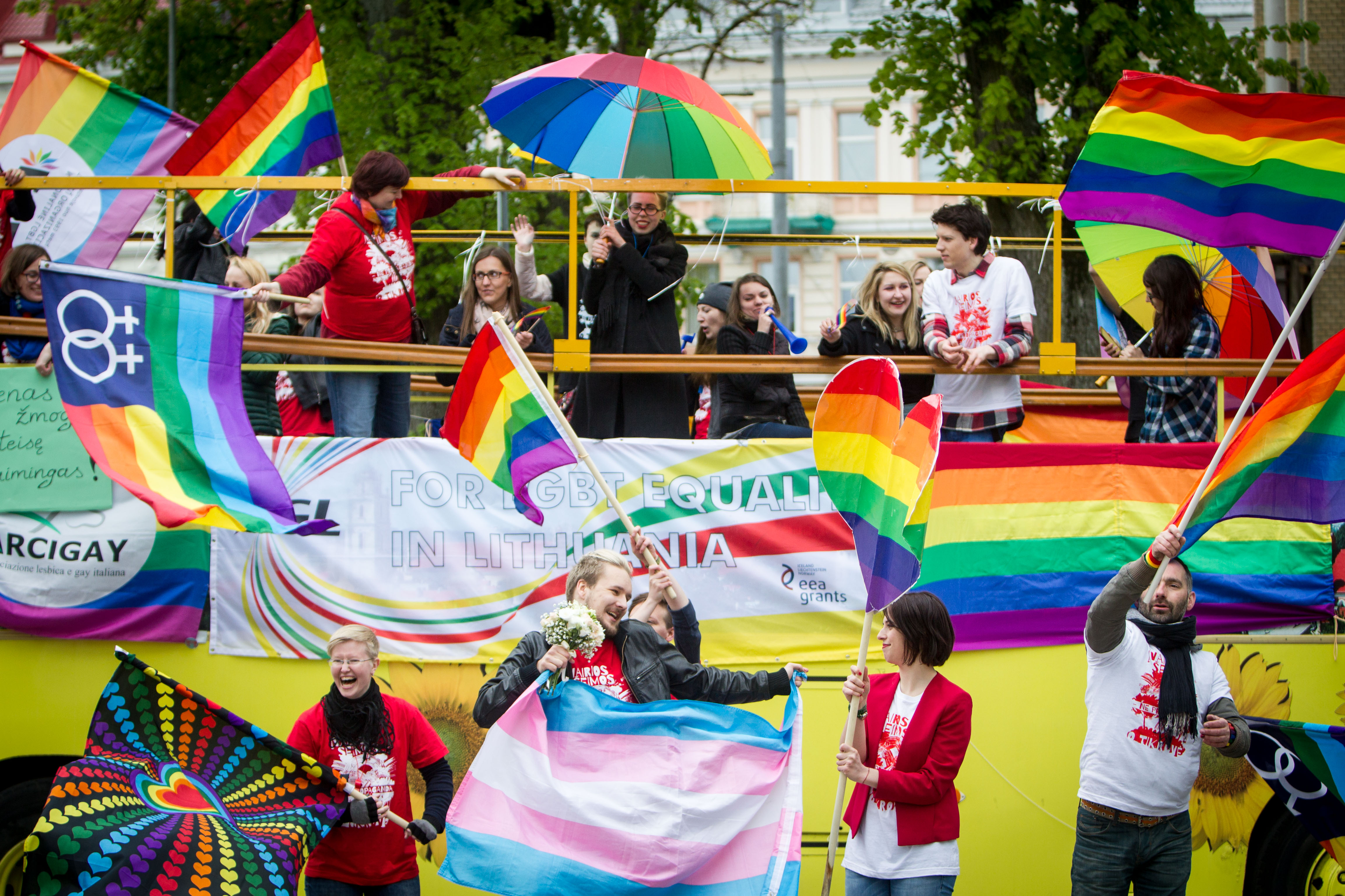 LGL Rainbow Days in Lithuania, IDAHOT 2015. Rainbow Bus is rolling once again through Vilnius